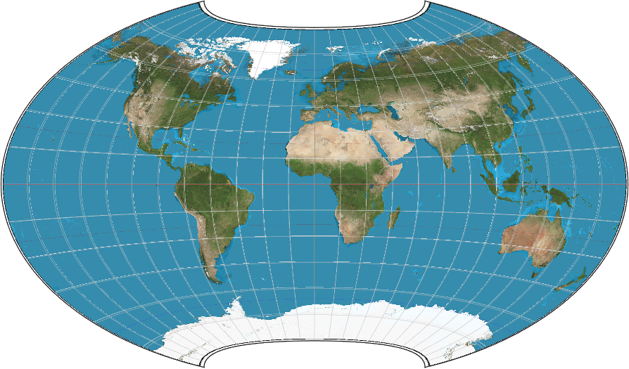 A polyconic map projection proposed by Frank Canters.